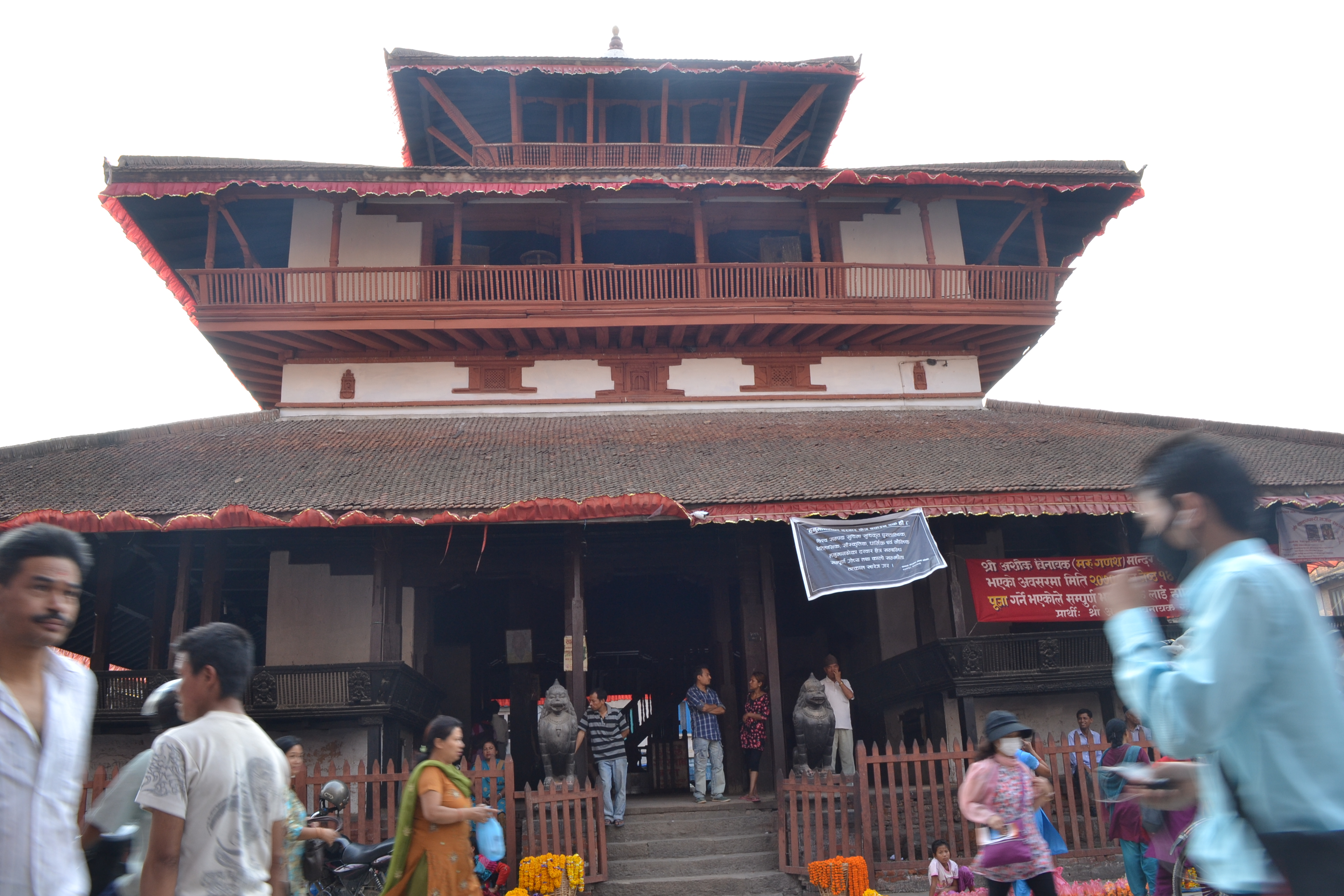 Kasthamandap at Basntapur .